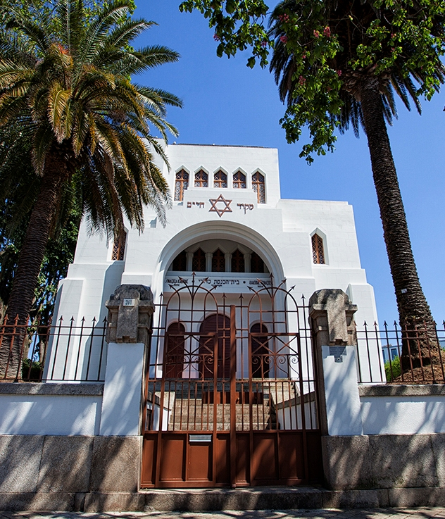 Sinagoga Kadoorie